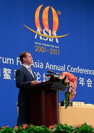 Speaking at the Boao Forum for Asia Annual Conference 2011.